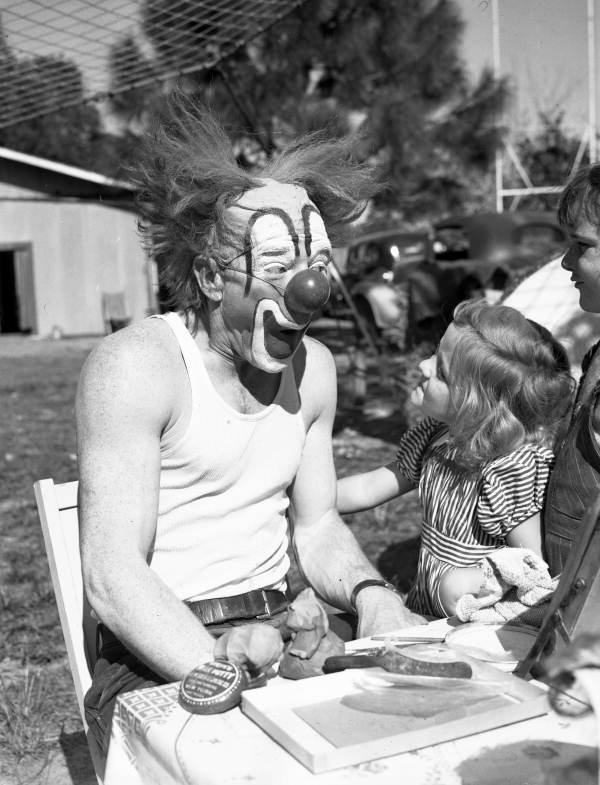 Local call number: JJS0660 Title: Ringling Circus clown Lou Jacobs with Carla Wallenda: Sarasota, Florida Date: 1941 Physical descrip: 1 photonegative - b&w - 5 x 4 in. Series Title: Joseph Janney Steinmetz Collection Repository: State Library and Archives of Florida, 500 S. Bronough St., Tallahassee, FL 32399-0250 USA. Contact: 850.245.6700. Persistent URL